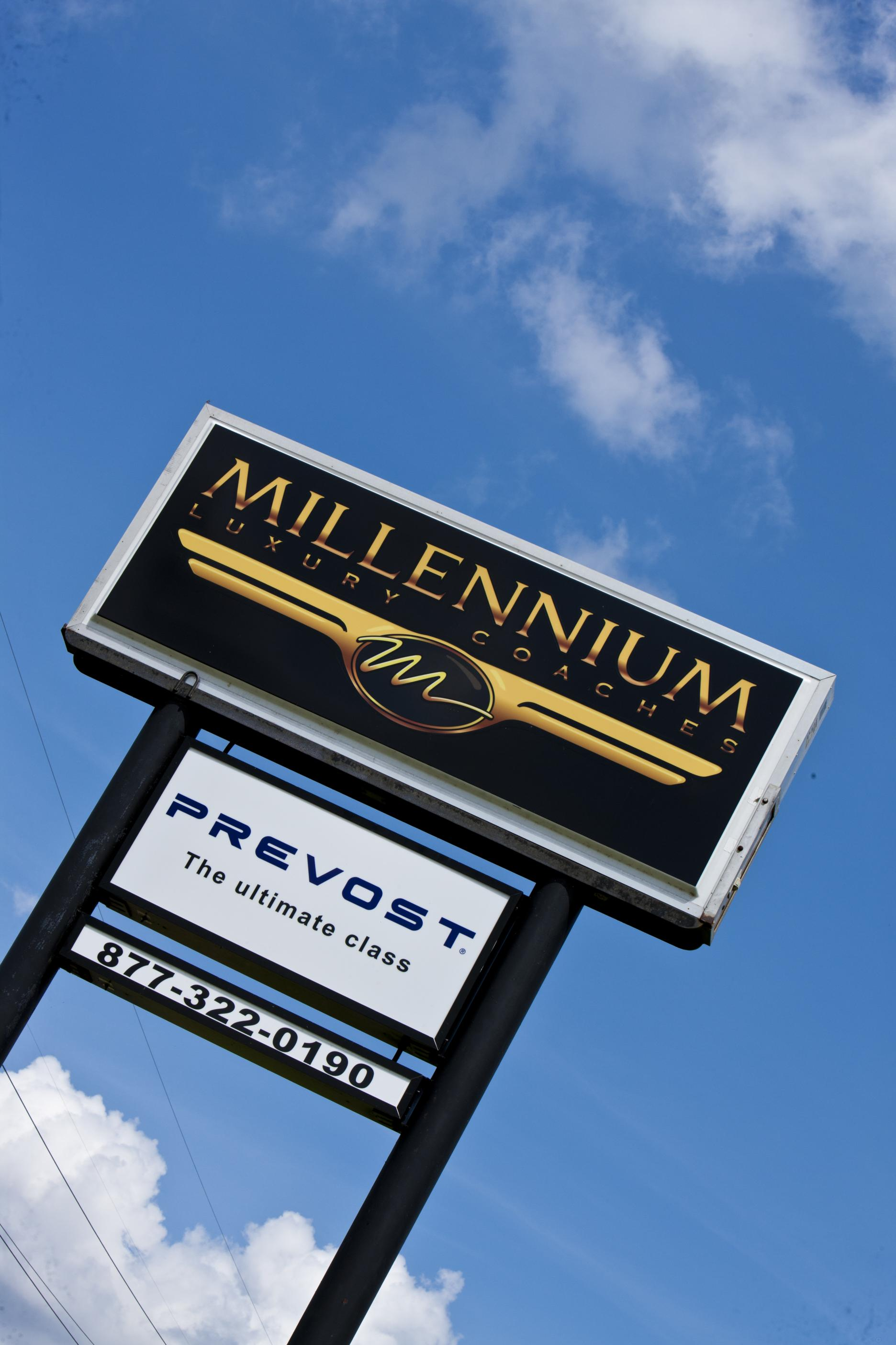 Image of Millennium Luxury Coaches facility sign